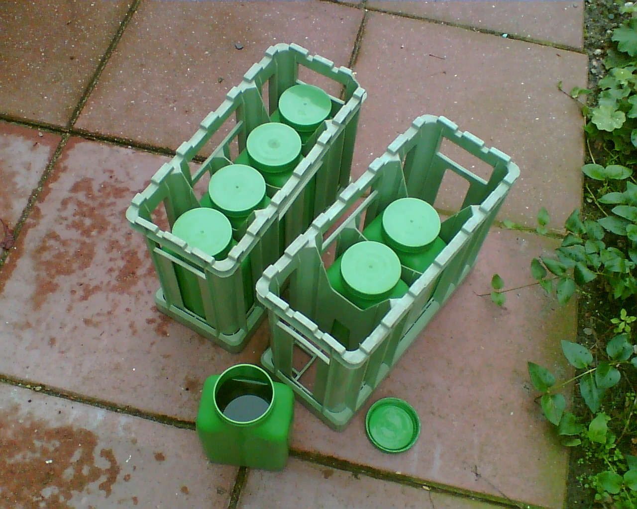 Urine is collected in these green plastic 1 L bottles. The urine was collected by a company who purified a fertility hormone from it (urine from pregnant women in first trimester contains elevated levels of fertility hormone hCG).